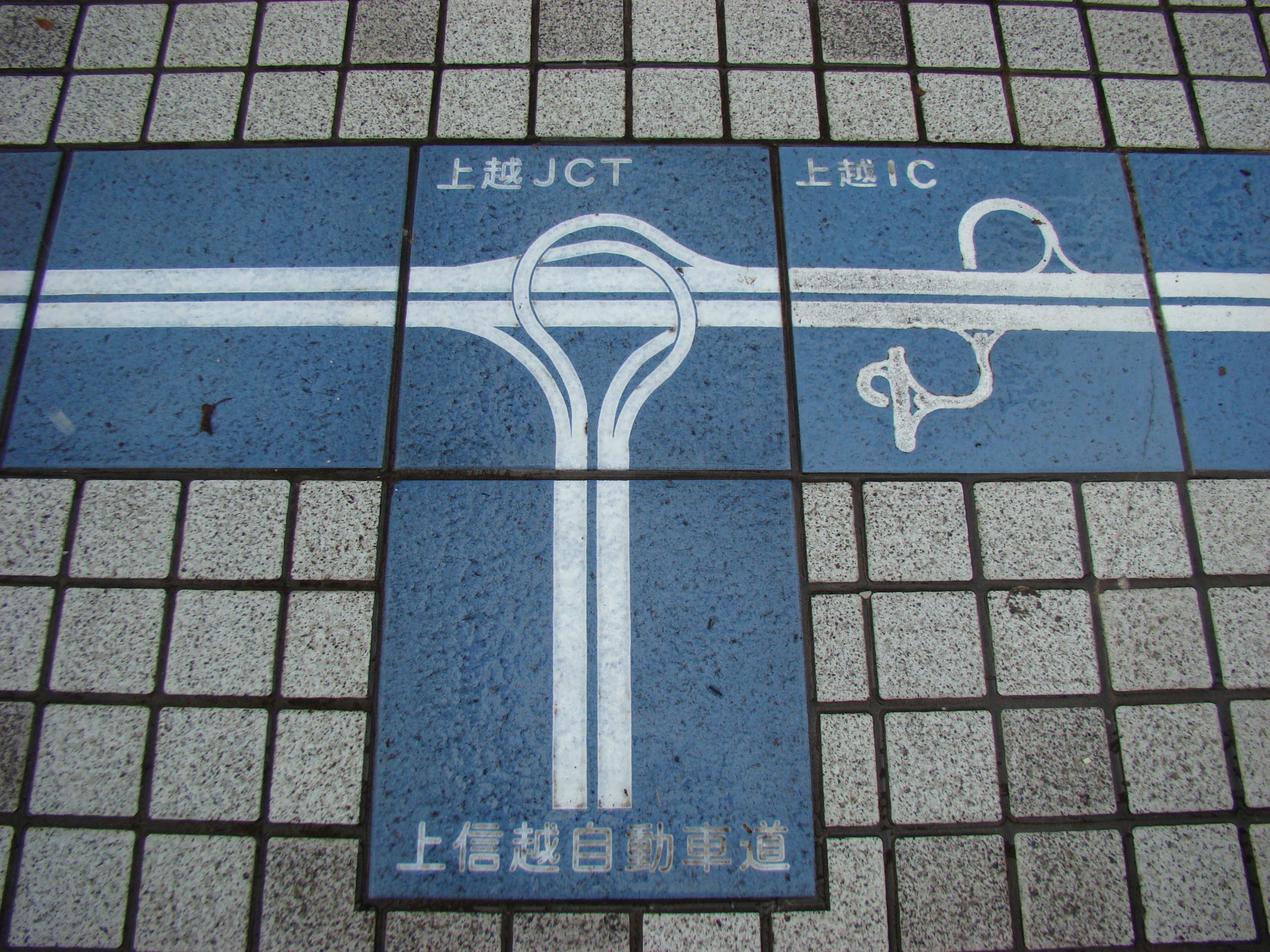 Tile which shows the shape of Joetsu Junction and Joetsu Interchange on the Hokuriku Expressway, installed at Nadachi-Tanihama Service Area in Chayagahara, Joetsu City, Niigata Prefecture, Japan